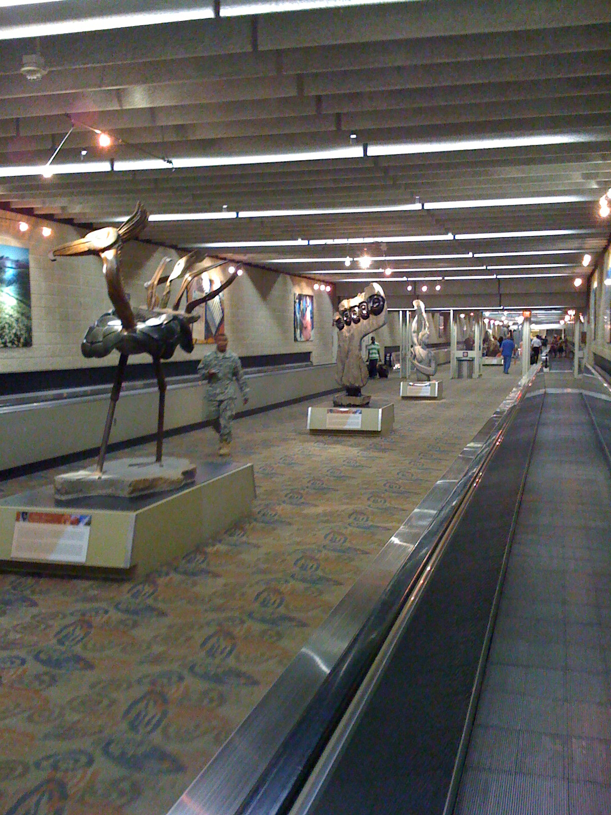 Atlanta Airport Transportation Mall